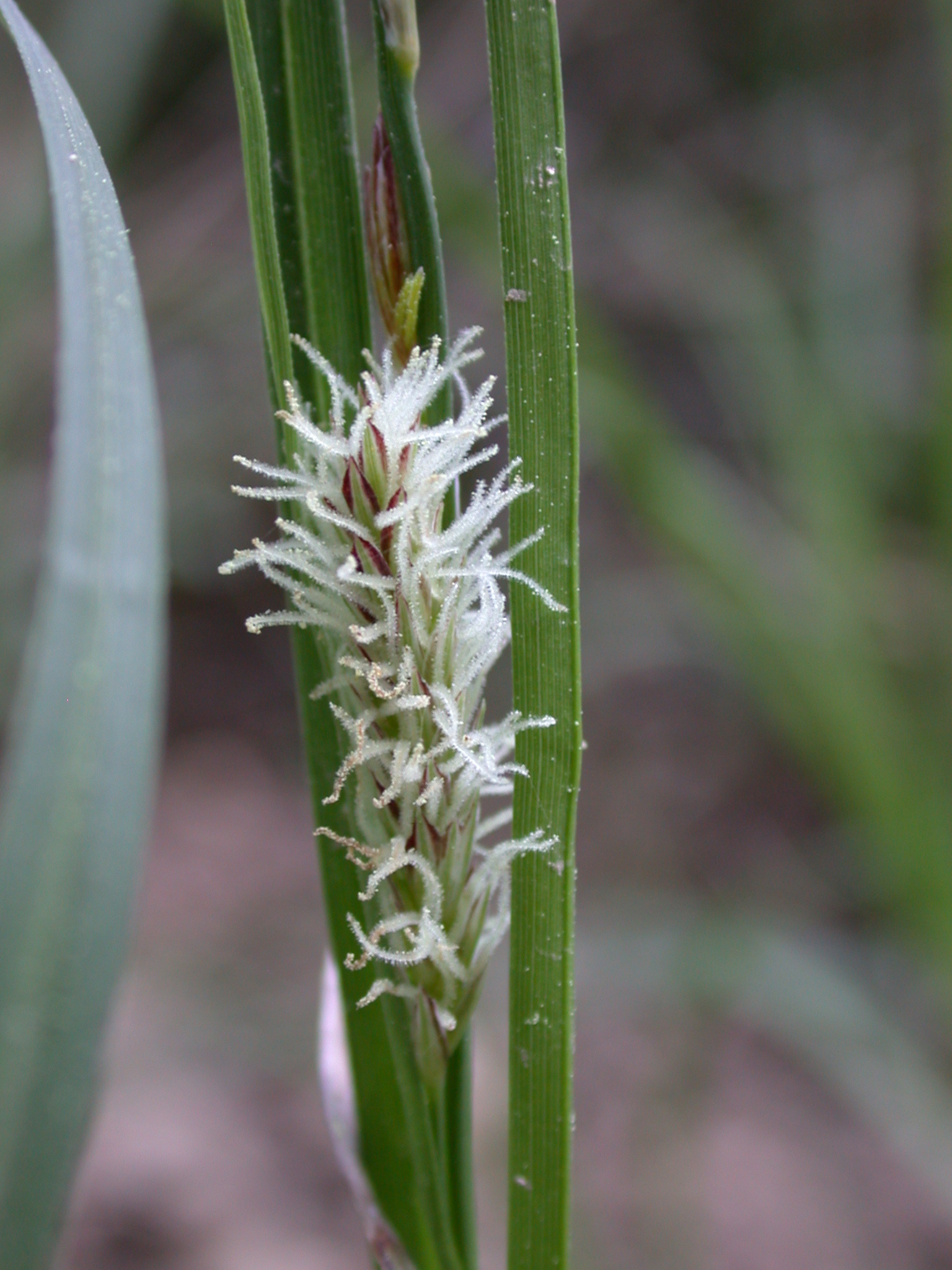 Carex flacca Schreb. (כריך אפרפר), female inflorescence, Mount Carmel, Israel, March 2008.